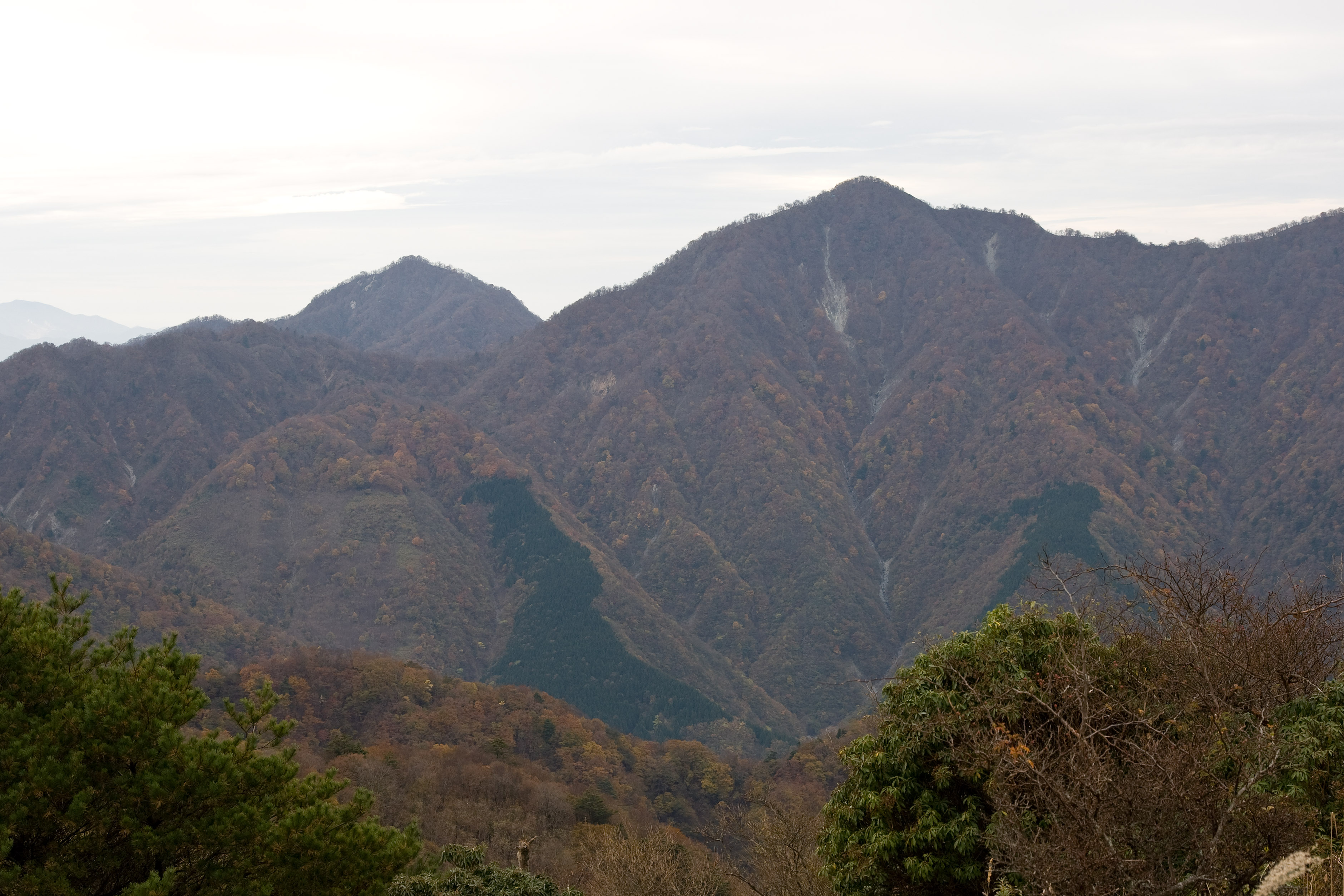 Mt.Hinokiboramaru(Hinokibora-maru, 檜洞丸, ひのきぼらまる) as seen from Mt.Himetsugi, Tanzawa Mountains, Kanagawa Pref., Japan.